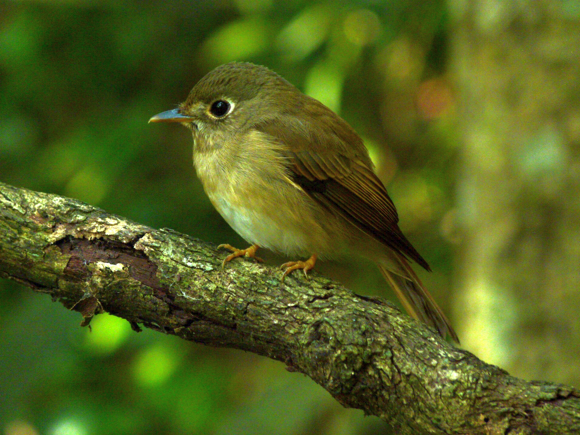 Muscicapa muttui, Wynaad, India